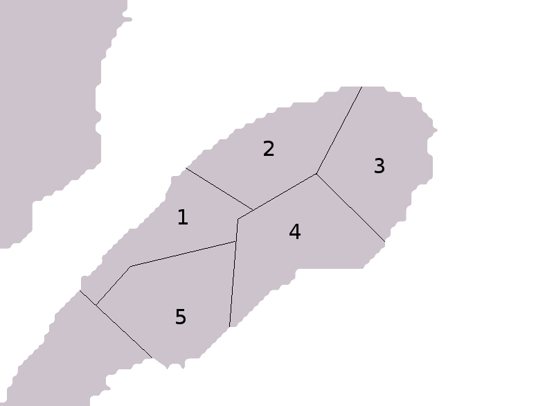 Natural Regions of Gaspé Peninsula